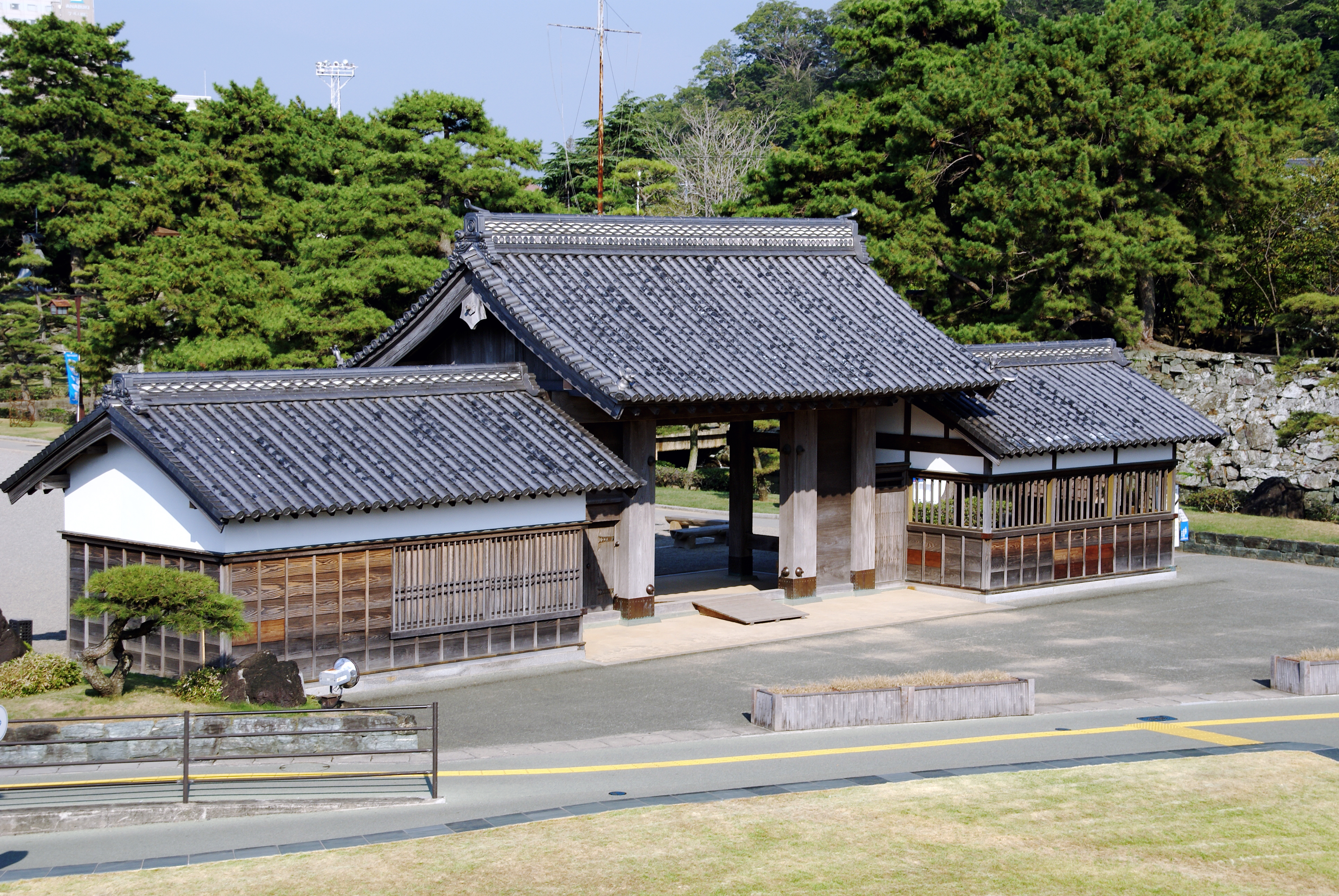 Washi-no-mon of Tokushima Castle in Tokushima, Tokushima prefecture, Japan